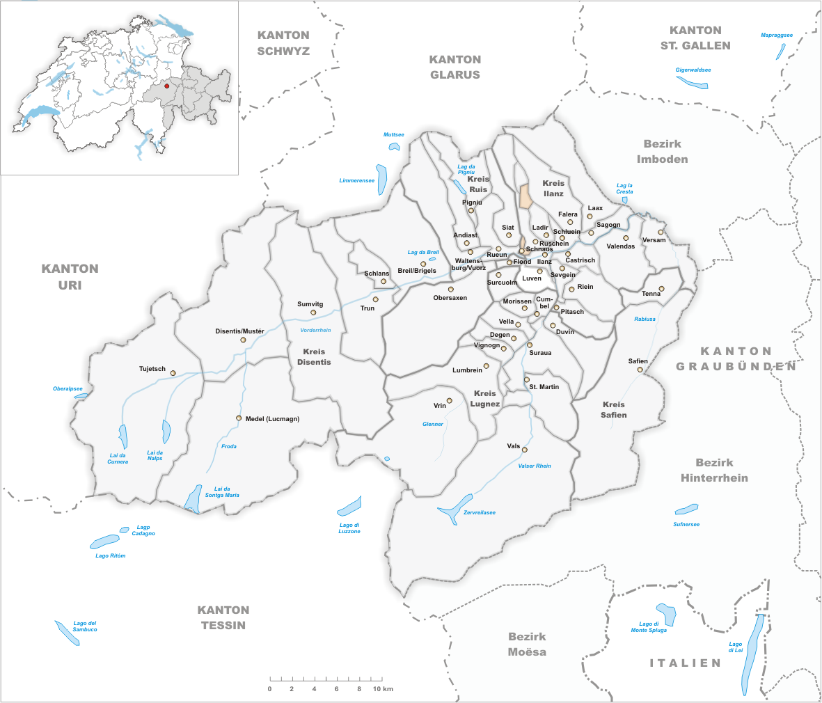 Municipality Schnaus